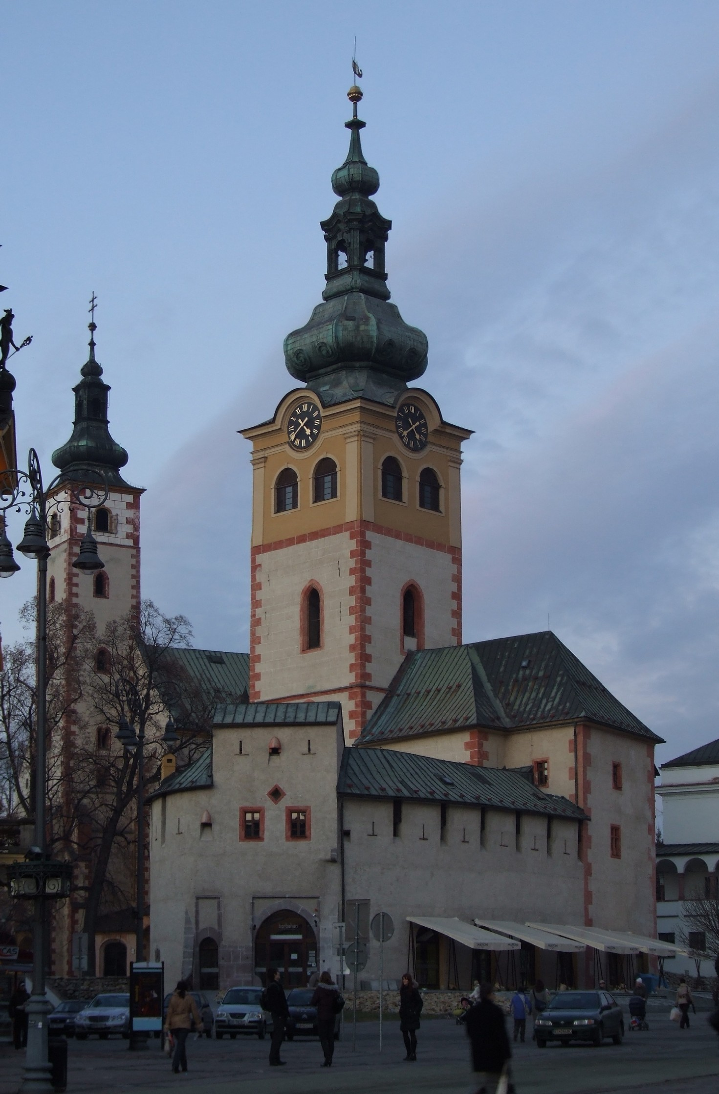 Barbican at City Castle, Banská Bystrica, Slovakia